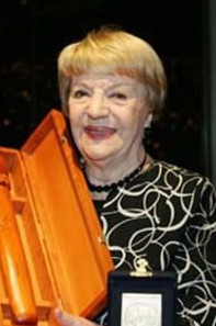 Bélgica Castro (receiving Premio a la Trayectoria), Gala Senado de la República